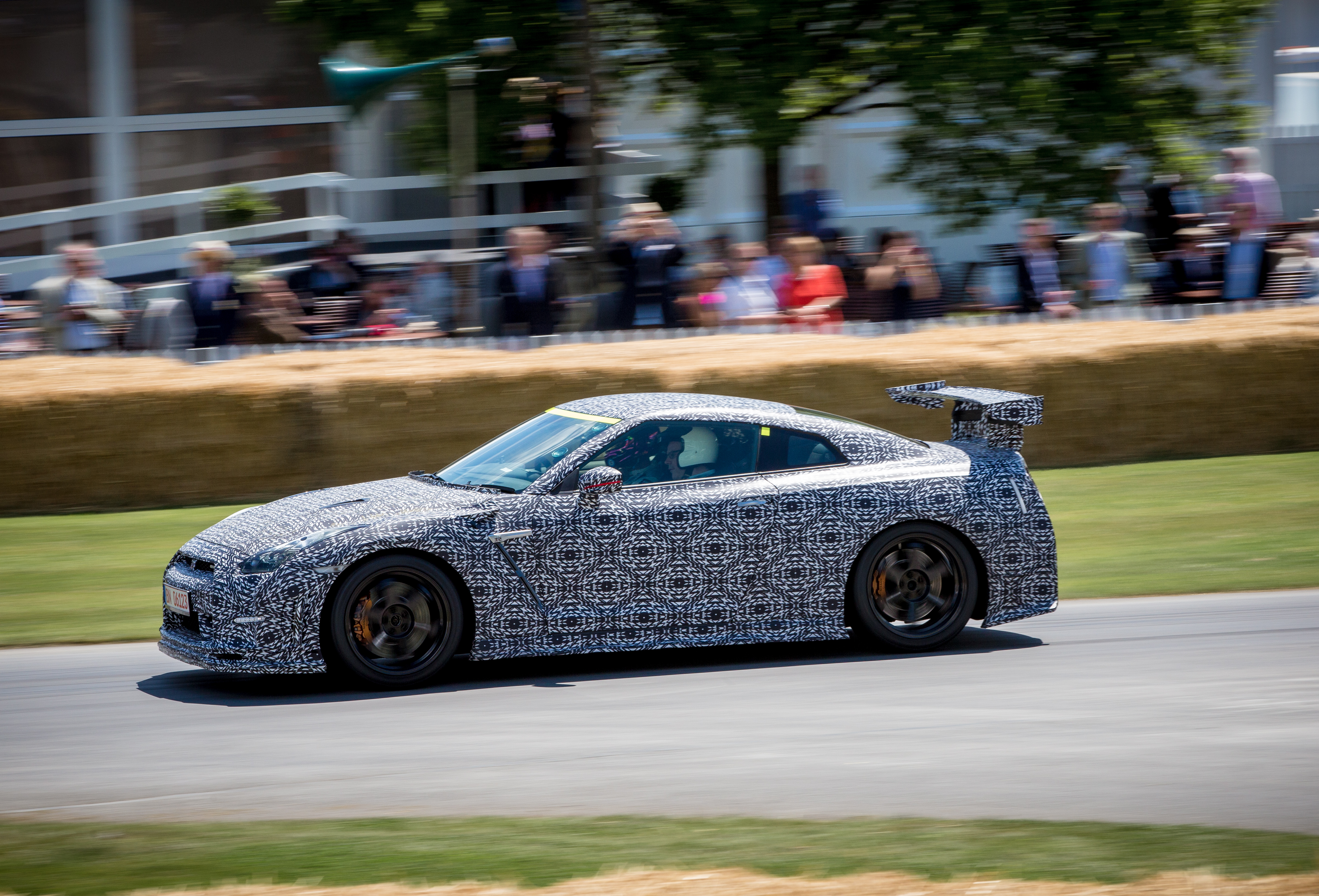 The Nissan GT-R Nismo 'Time Attack' edition, driven by Jann Mardenborough at the 2014 Goodwood Festival of Speed.